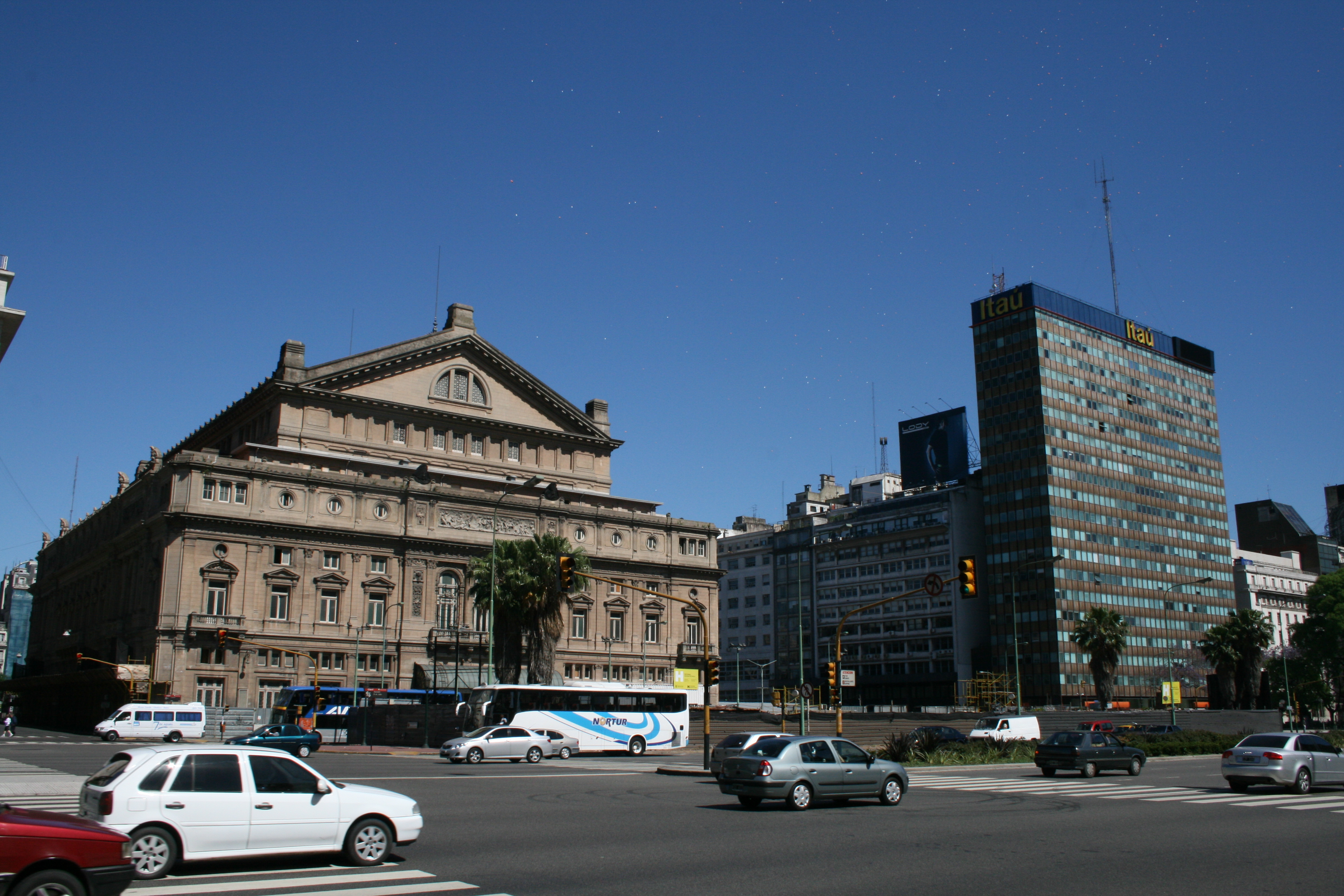 Image of the Teatro Colón in 2008.